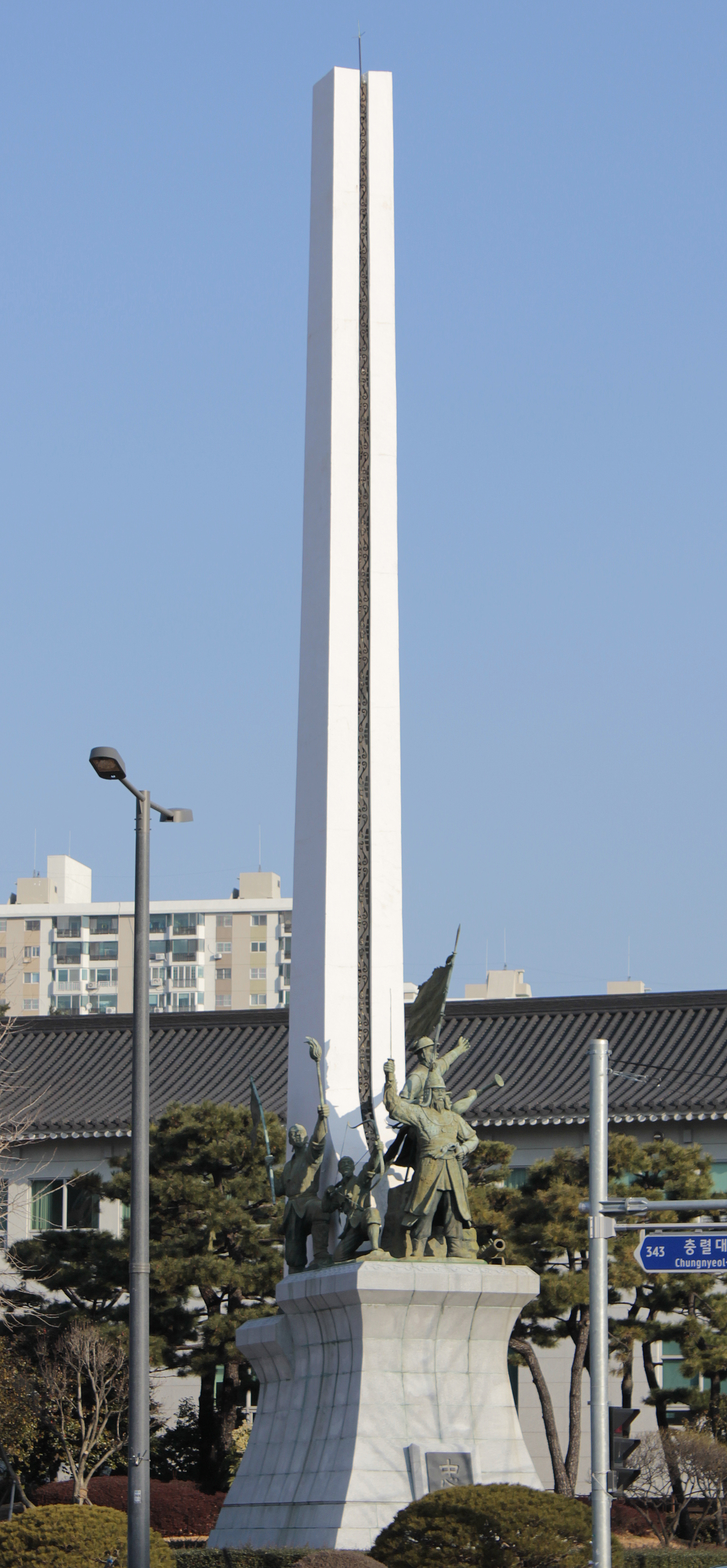 Chungryeolsa Monument